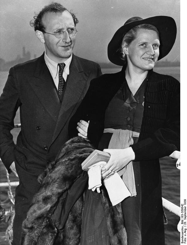 Helga Maria und Hubertus Prinz zu Löwenstein 523209 Former German Party Leader arrives in U.S. New York City - Prince and Princess Hubertus zu Loewenstein pictured als they arrived in New York Sept. 28th on the United States Liner President Roosevelt. The prince, a former german centrist party leader, told newsmen on his arrival, that the german people will revolt and overthrow Adolf Hitler if he does not accept a jew "real peace". Credit line (ACME) # I CAN Fot 9-29-39 12359-39 [Helga Maria zu Löwenstein-Wertheim-Freudenberg (geborene Schuylenburg) und Hubertus Prinz zu Löwenstein-Wertheim-Freudenberg] Abgebildete Personen: Löwenstein-Wertheim-Freudenberg, Hubertus Prinz zu: 1906-1984; Journalist, Historiker, MdB, FDP, DP, CDU, Deutschland